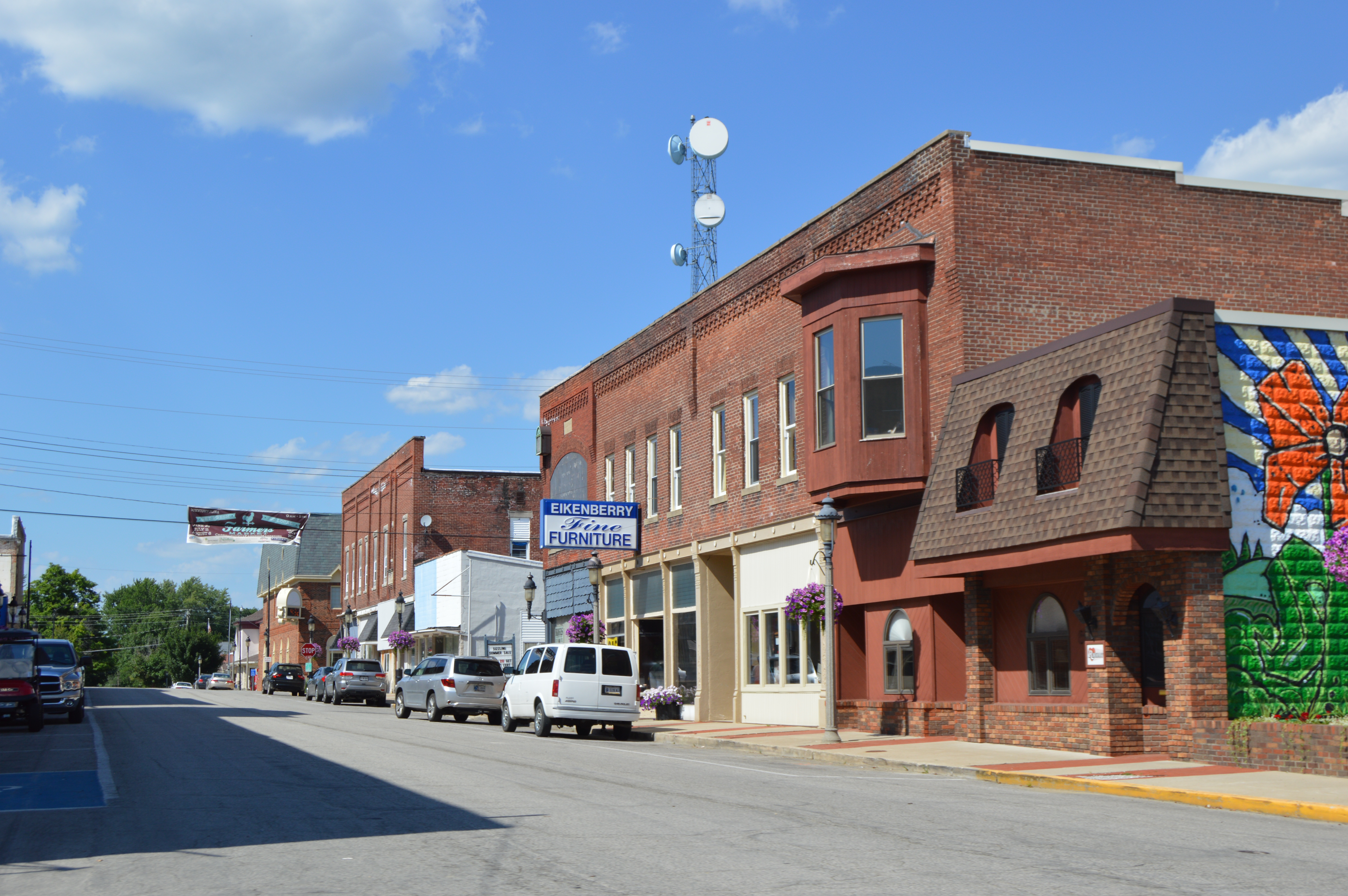 Buildings on the eastern side of Center Street, seen looking north from Columbia Street (State Road 18) in downtown Flora, Indiana, United States.